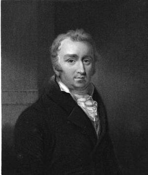 Portrait of James Wilson (1765–1821), English anatomist. From Thomas Joseph Pettigrew, Medical Portrait Gallery vol. 2 (1838).